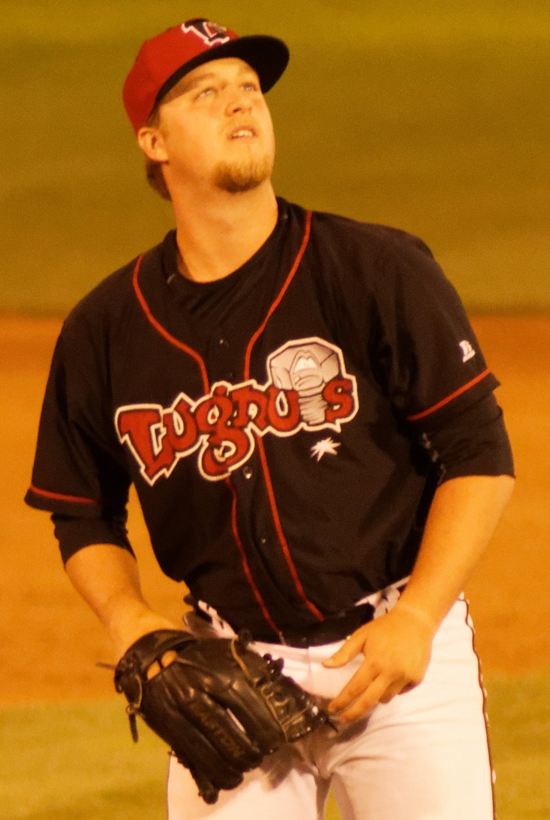 Kirby Snead with the Lansing Lugnuts in 2016